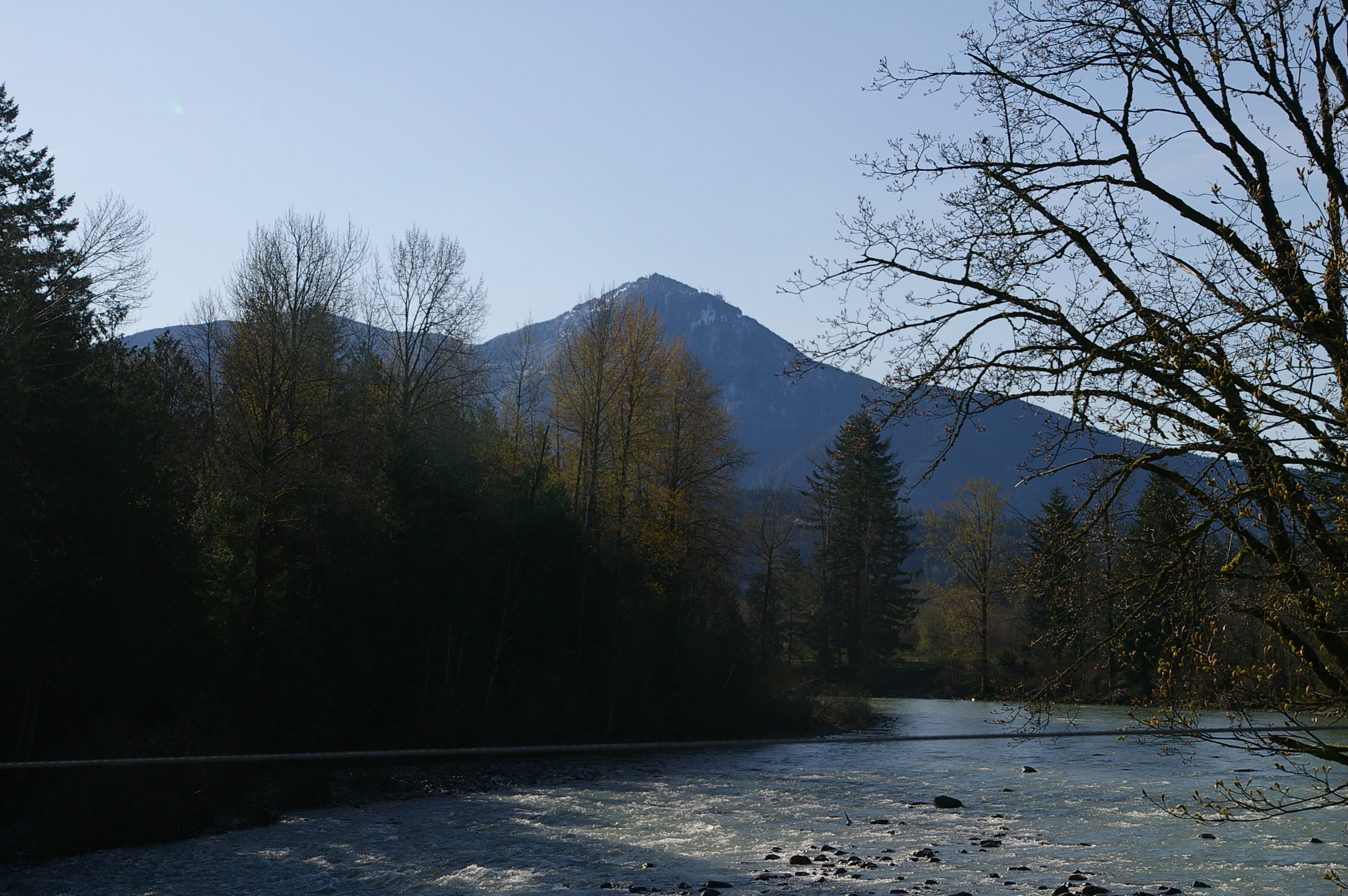 The middle fork of the Snoqualmie river with Mount Washington in the background. The photo was taken from the SE Mt Si Road bridge. (CC) 2007 Konrad Roeder